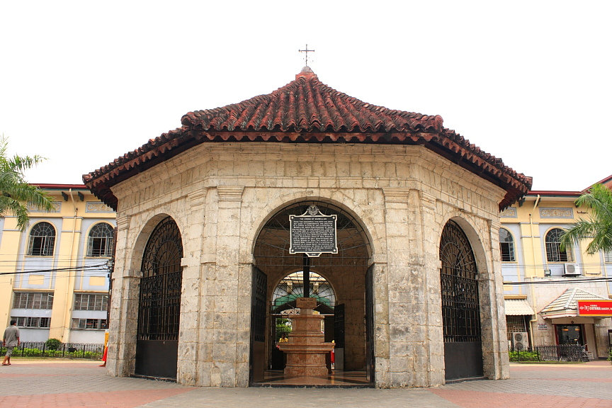 Magellan's Cross in Cebu City, Philippines.